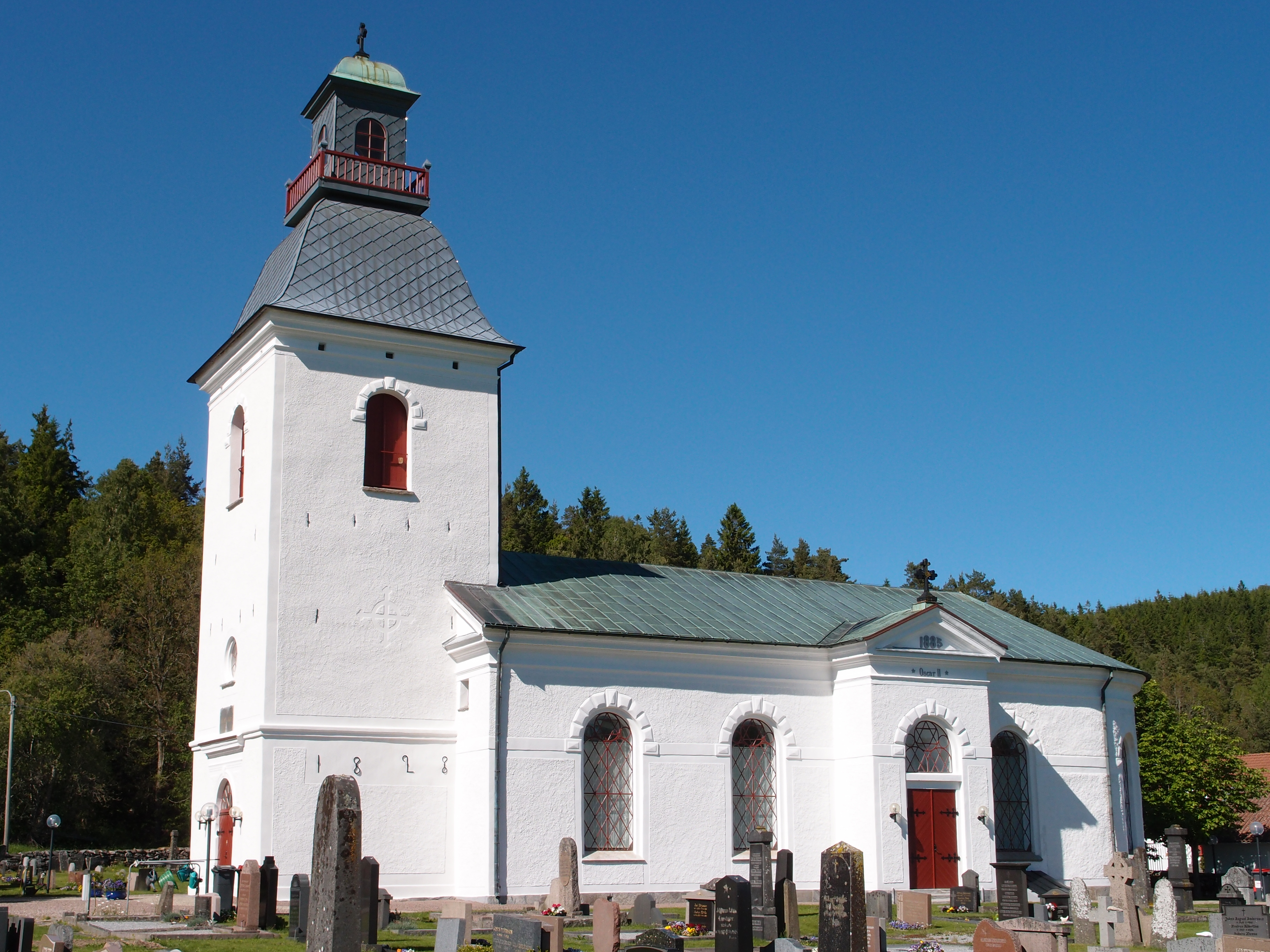 Förlanda Church